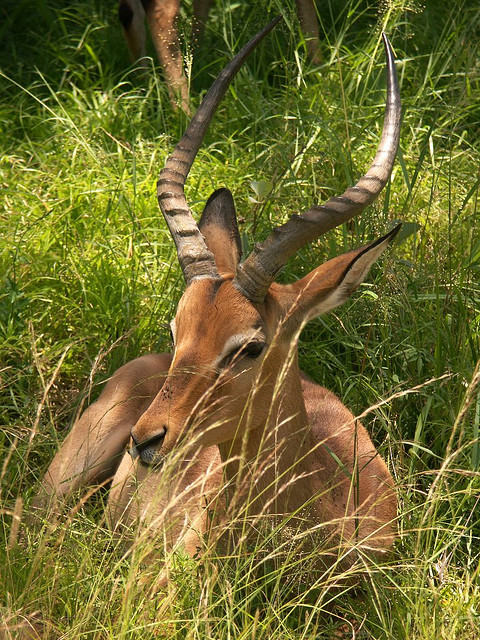 Impala, Mkuze game reserve, South Africa. 200mm uncropped.